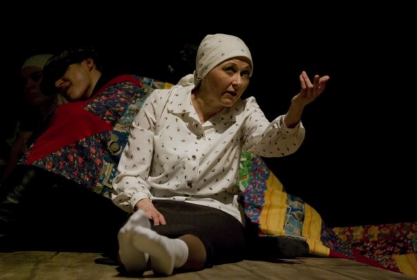 "Wooden Horses" on Fyodor Abramov in Arkhangelsk Young People's Theatre